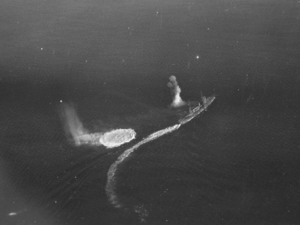 The Japanese light cruiser Katori underway in Truk Lagoon, as seen from U.S. Navy Grumman TBF Avenger of Torpedo Squadron Six (VT-6) from USS Intrepid (CV-11) on 16 February 1944. Katori was damaged by air attack and sunk the next day off Truk by the heavy cruisers USS New Orleans (CA-32), USS Minneapolis (CA-36) and the destroyers USS Radford (DD-446) and USS Burns (DD-588).